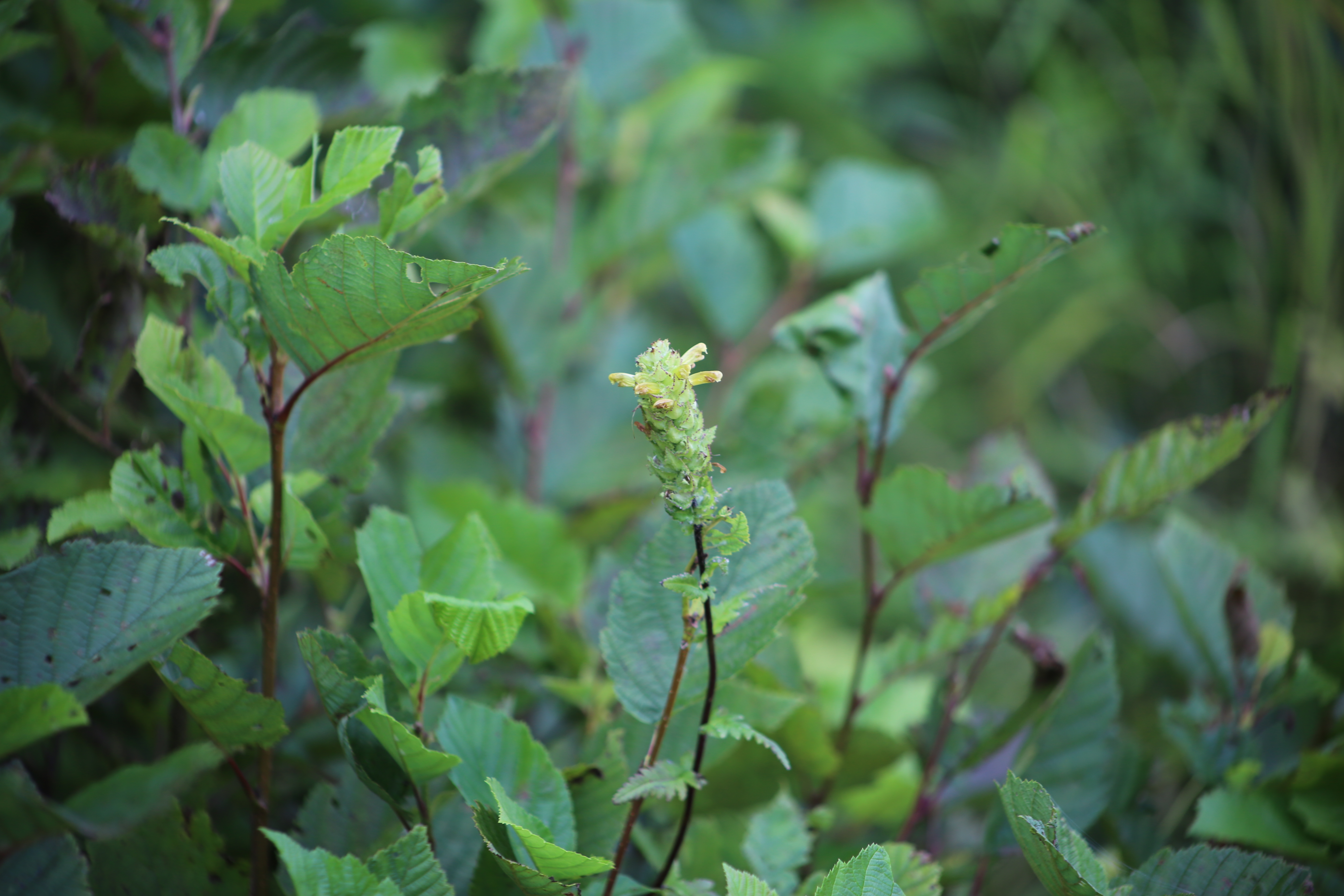 Furbish lousewort grows in the area of riverbank subject to natural disturbance- ice scouring, spring flooding, undercutting, and slumping- caused by river movement. Furbish lousewort relies on the disturbance to carry away competing vegetation and create new areas for lousewort seeds to grow. Photo by Meagan Racey/ USFWS